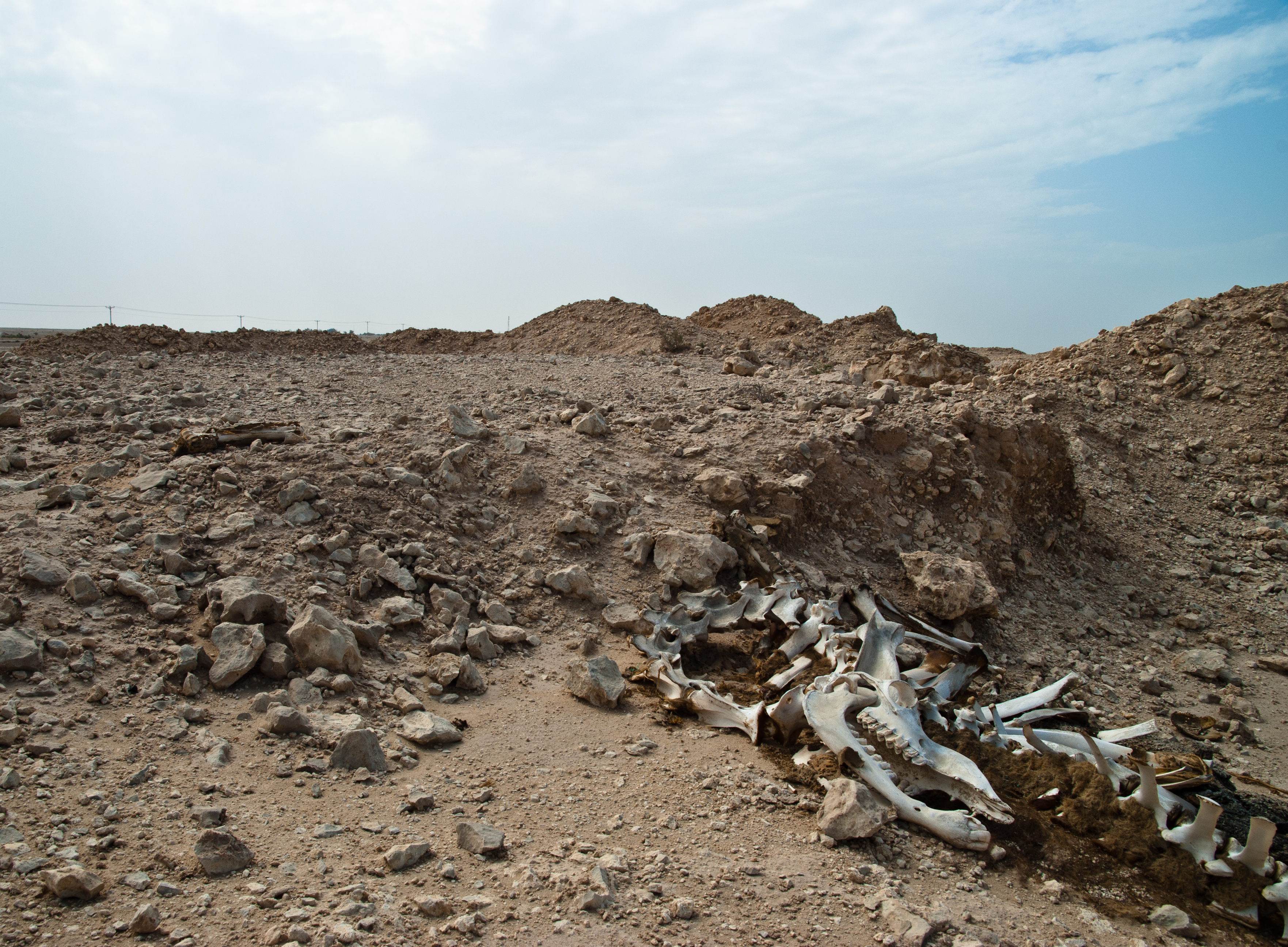 View of burial mounds, small hillocks (?) and rocky desert at Umm Al Maa in Al Khor Municipality, northwest Qatar. A camel skeleton is seen on the lower right.